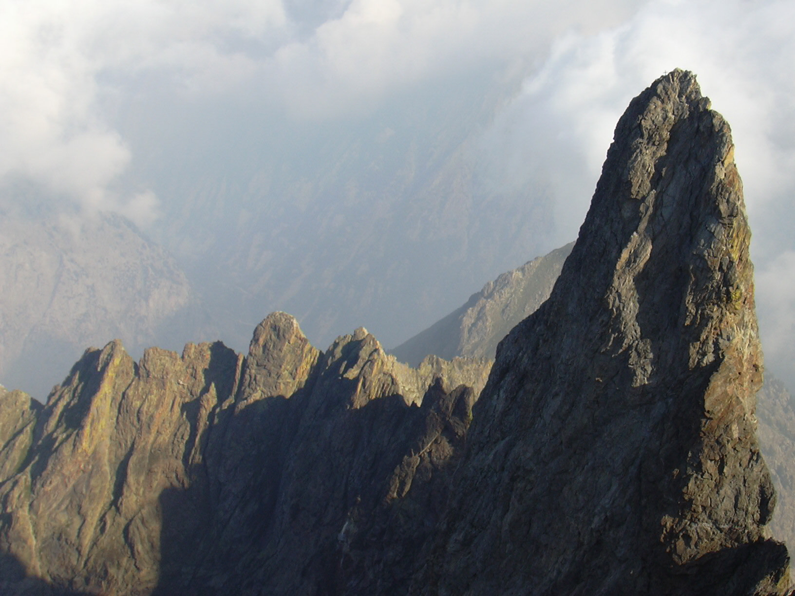 Corno Stella of the Monte Argentera (Argentera Massif), in the Category:Maritime Alps - in Piedmont, Italy.